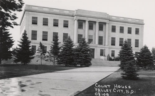 Photographic postcard of Barnes County Courthouse, Valley City This work is in the public domain because it was published in the United States between 1923 and 1963 and although there may or may not have been a copyright notice, the copyright was not renewed. Unless its author has been dead for the required period, it is copyrighted in the countries or areas that do not apply the rule of the shorter term for US works, such as Canada (50 pma), Mainland China (50 pma, not Hong Kong or Macao), Germany (70 pma), Mexico (100 pma), Switzerland (70 pma), and other countries with individual treaties. See Commons:Hirtle chart for further explanation. This work is in the public domain in the United States because it was published in the United States between 1923 and 1977 without a copyright notice. See this page for further explanation. Note that it may still be copyrighted in jurisdictions that do not apply the rule of the shorter term for US works (depending on the date of the author's death), such as Canada (50 p.m.a.), Mainland China (50 p.m.a., not Hong Kong or Macao), Germany (70 p.m.a.), Mexico (100 p.m.a.), Switzerland (70 p.m.a.), and other countries with individual treaties.